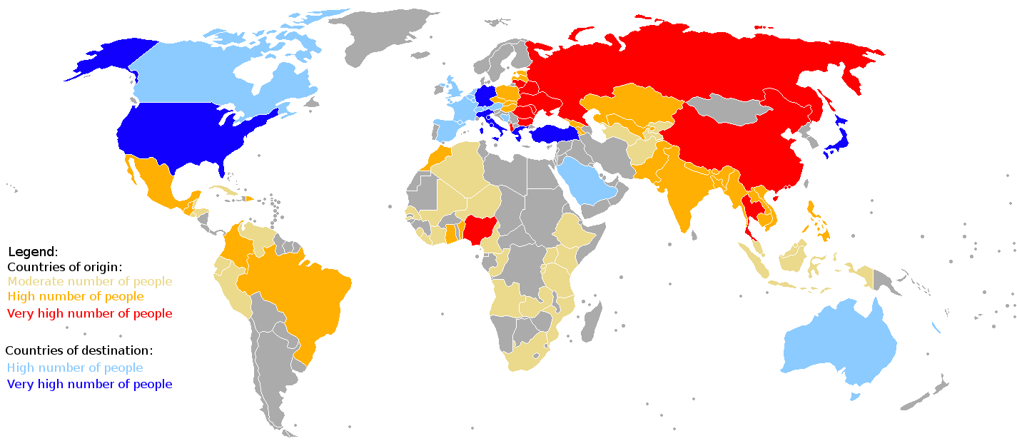 A schematic showing global human trafficking, with specific focus to women and children. The map was based mostly on the UNODC map at and was accompleted with the moderate countries of origin of this map: Some simplifications were made; ie some countries on the first map shows that there are countries of both origin and destination; notably Poland, Czech republic, Pakistan, India and China. The exact route of trafficking can be seen (to some degree, maps don't match fully) at A map showing the exact trafficking routes can be found at legend:Countries of origin Yellow: Moderate number of persons Orange: High number of persons Red: Very high number of personsCountries of destination Light blue: High number of persons Blue: Very high number of personsCountries shown in grey are neither countries of origin nor countries of destination.